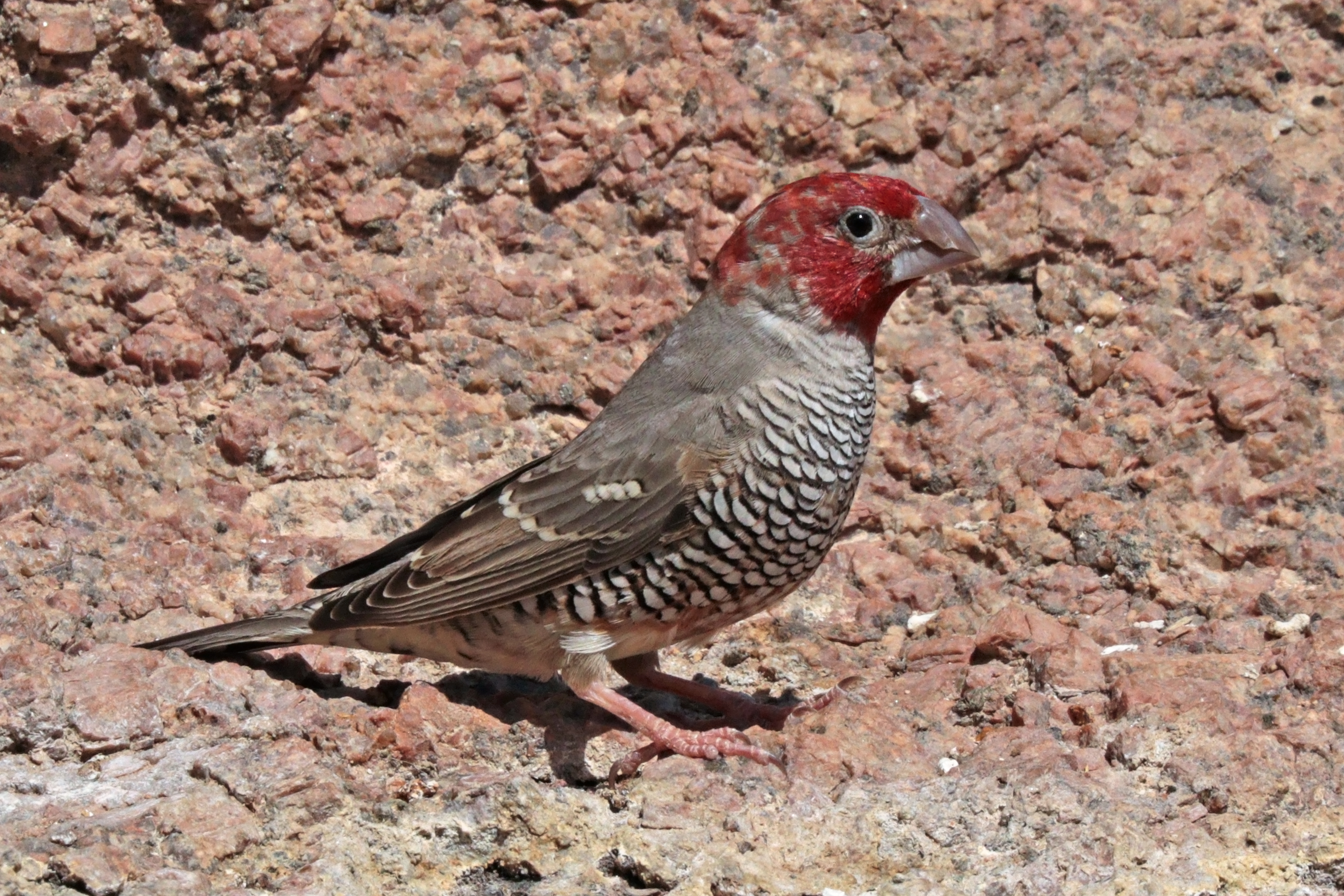 Red-headed finch (Amadina erythrocephala) male, Damaraland, Namibia